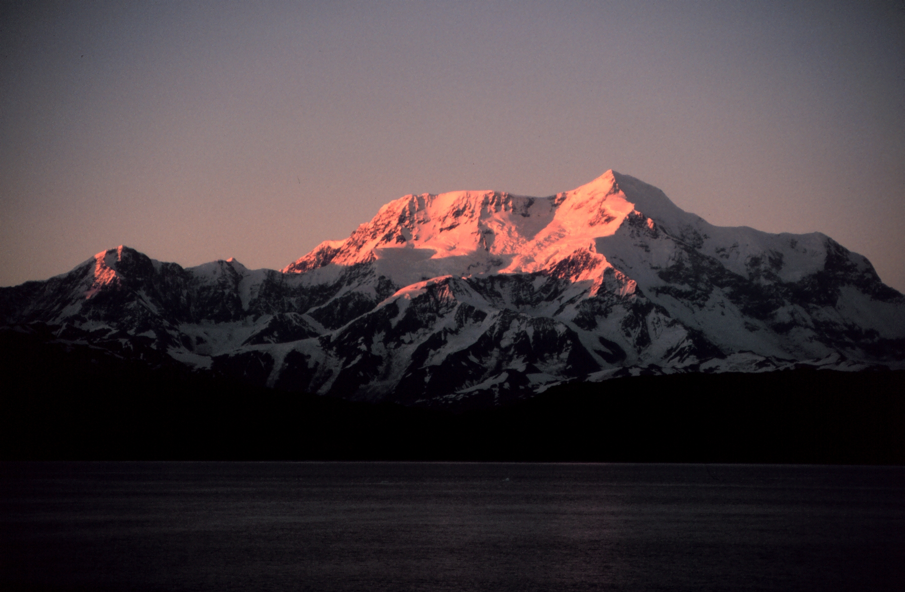 Mount Saint Elias, 2nd highest mountain in Canada and the USA. South Central Alaska, Icy Bay